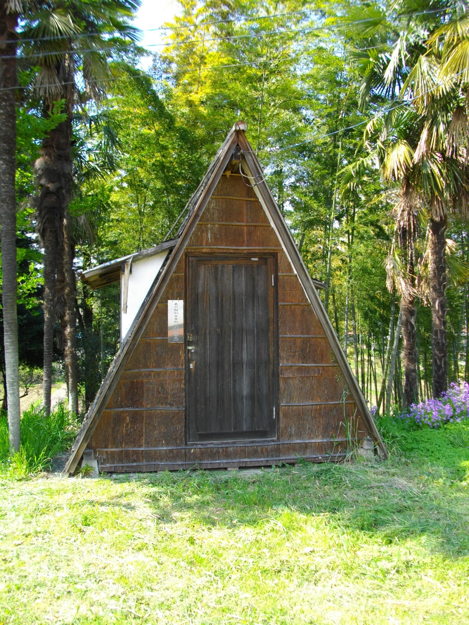 Atarashiki-mura Bungalow